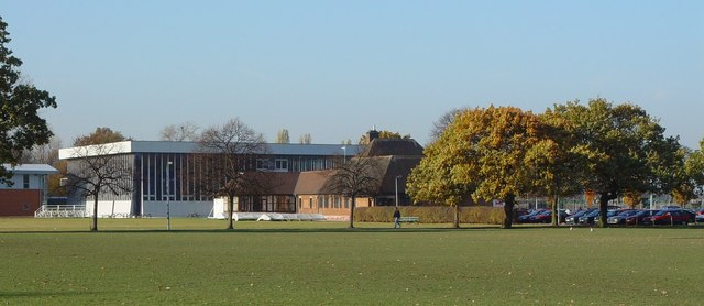 The Sports Hall, Hull University. Designed by Peter Womersley in 1963-1965